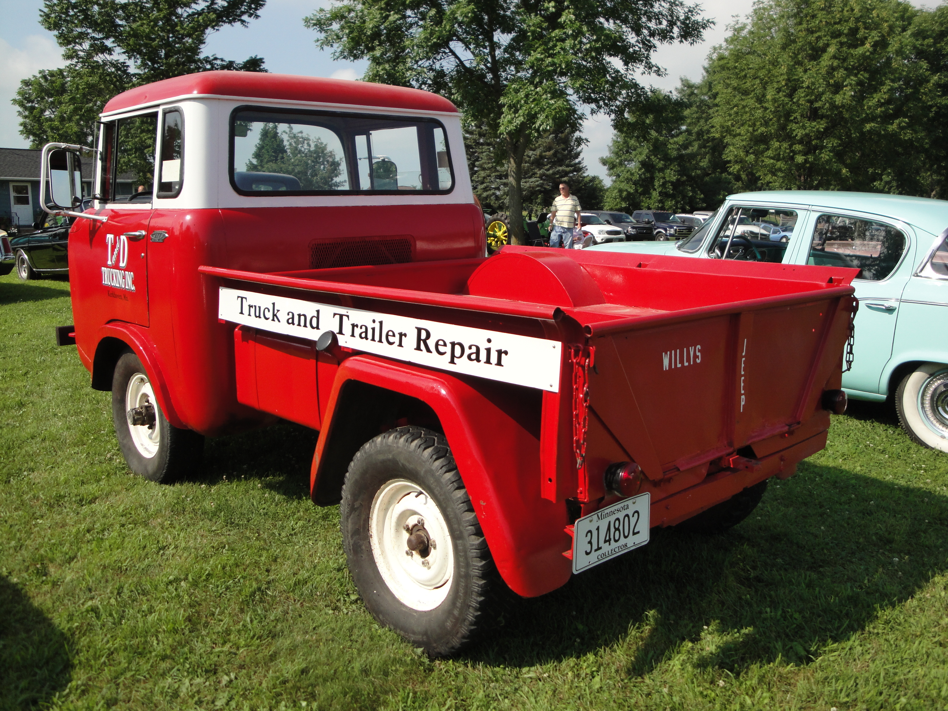 1963 Jeep Forward Control at Town & Country Days Kerkoven, Minnesota